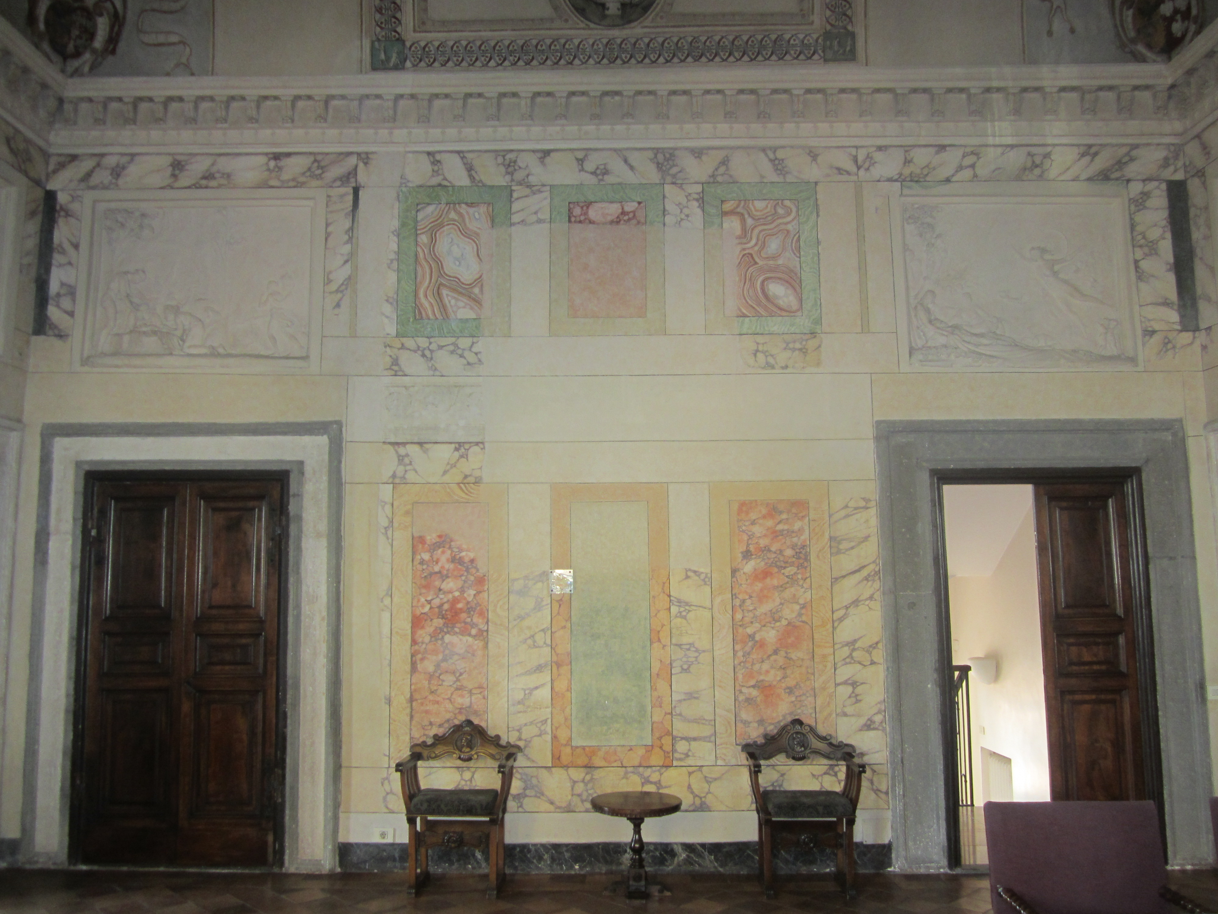 Villa Lante, Rome. Interior.